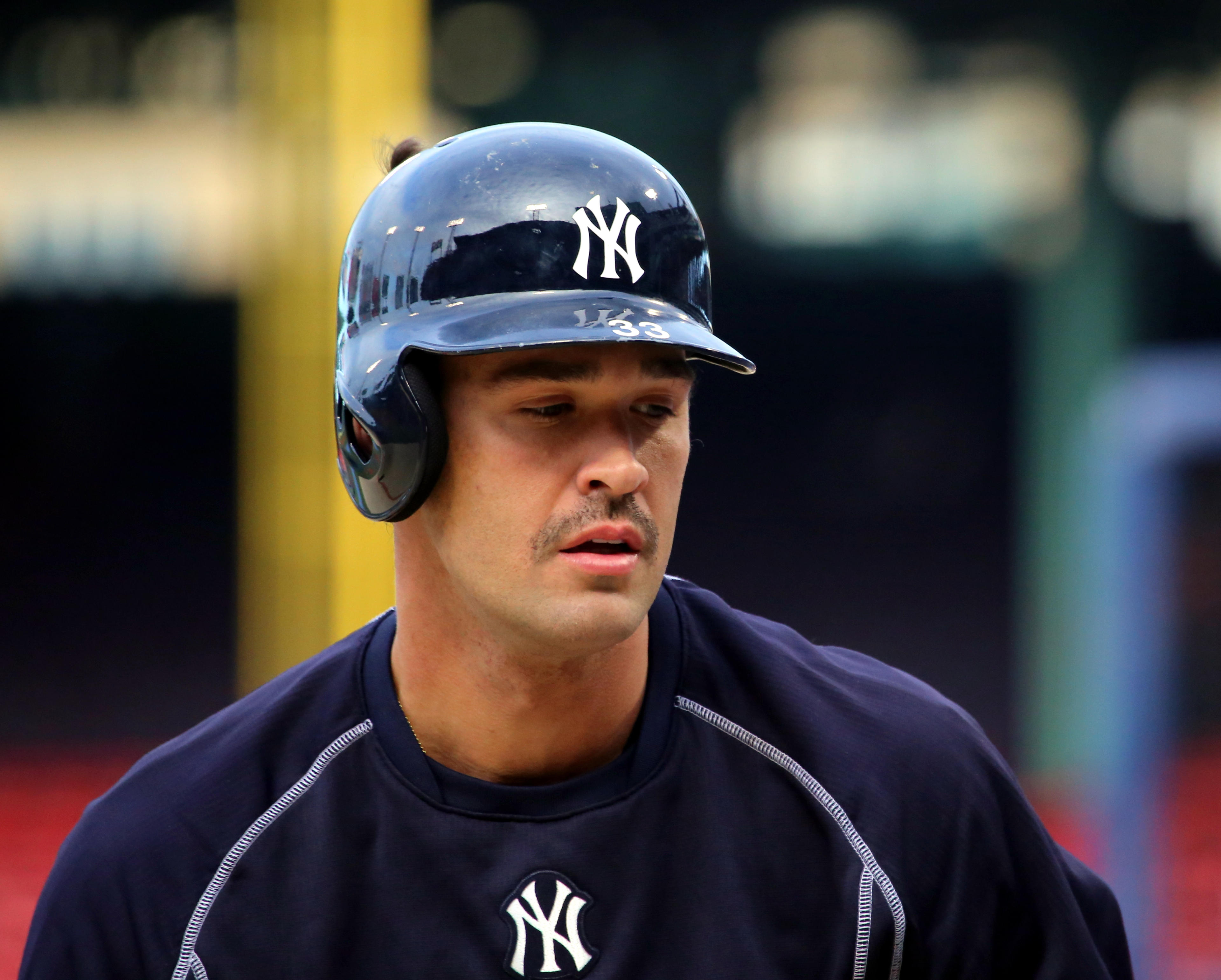 Garrett Jones is one of the Yankees growing a mustache.